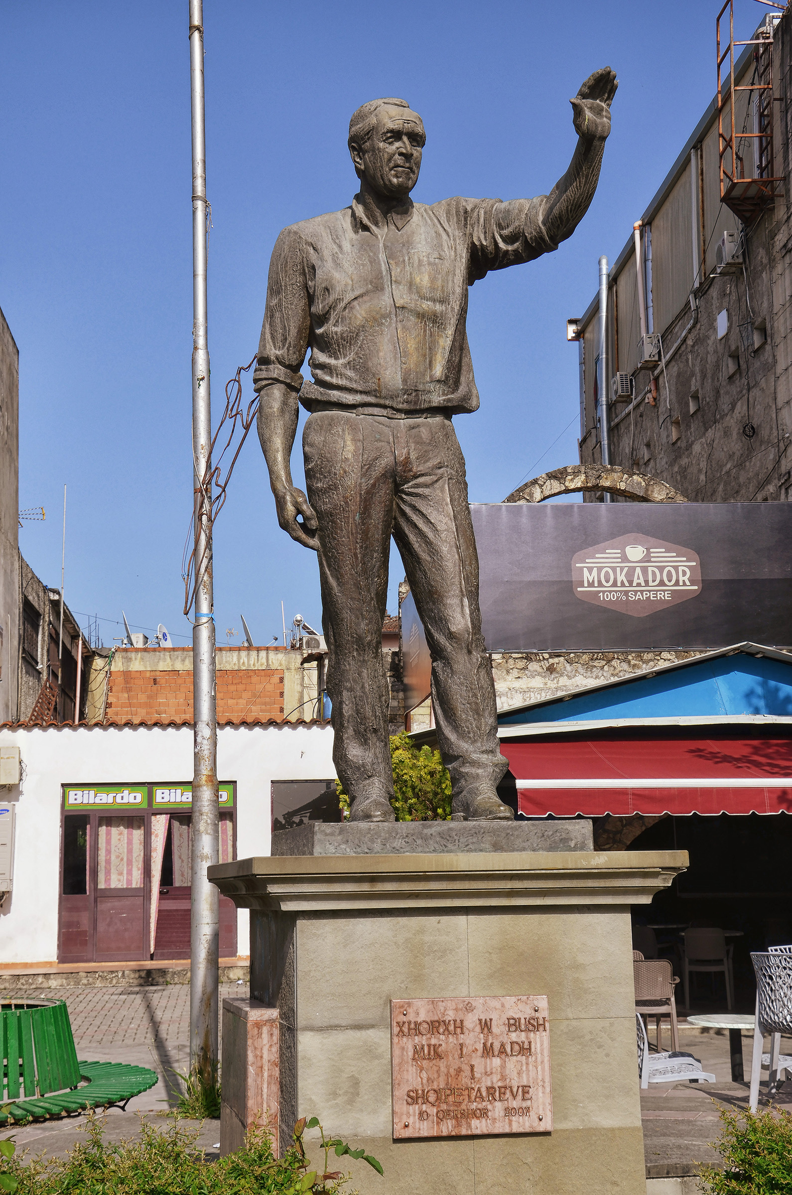 The statue of American president George W. Bush in Fushë-Krujë, Krujë, Albania